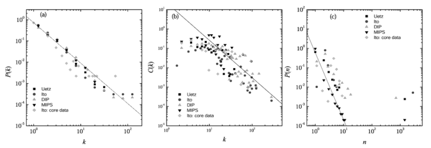 Figure 2 from the article Functional and topological characterization of protein interaction networks. Caption: Large-scale characteristics of the protein interaction databases. (a) Degree distribution of the four databases, shown on a log-log plot. Note that all datasets have a power law tail, indicating that the underlying network has a scale-free topology. The solid line is obtained from the fitting to the function P(k)~k^(-gamma) to the DIP data, the best fit indicating gamma~2.5 for DIP data set. (b) Distribution of the clustering coefficient for the four studied databases shown on a log-log plot. The straight line has slope -2. (c) Cluster size distribution for the four databases shown on a log-log plot. Apart from the points corresponding to the giant component (for right) the P(n) curves follow a power law. The solid line is obtained from the least square fitting to P(n)~n^(-alpha) for the MIPS dataset, providing alpha = 3.4.